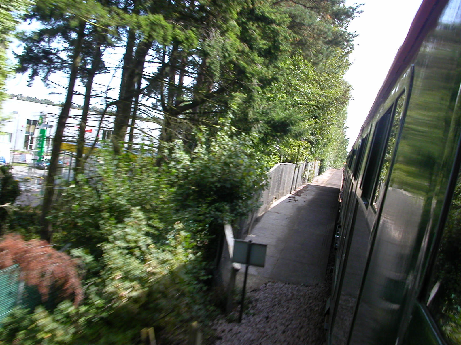 View of Ampress Halt from passing train, looking towards Lymington. Photographed on 8th September 2006.